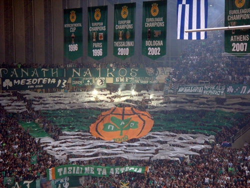 Panathinaikos Supporters